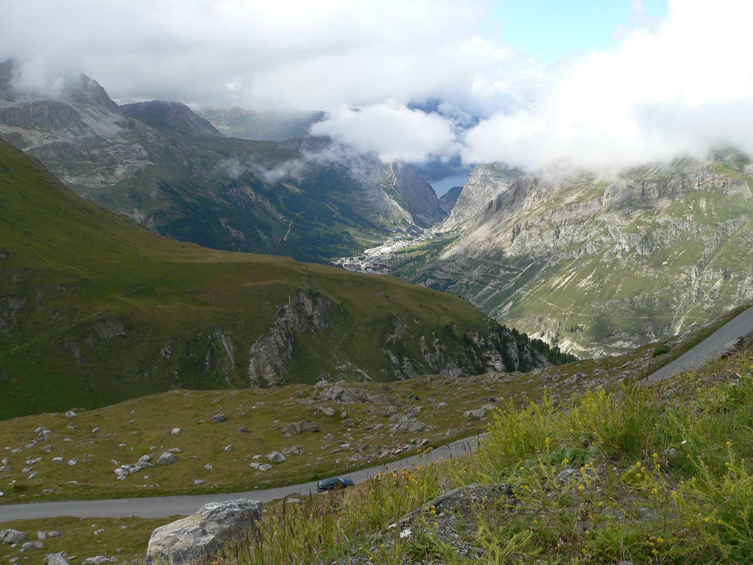 Climbing Col d´Iseran, view of Val d´Isère, french Alpes